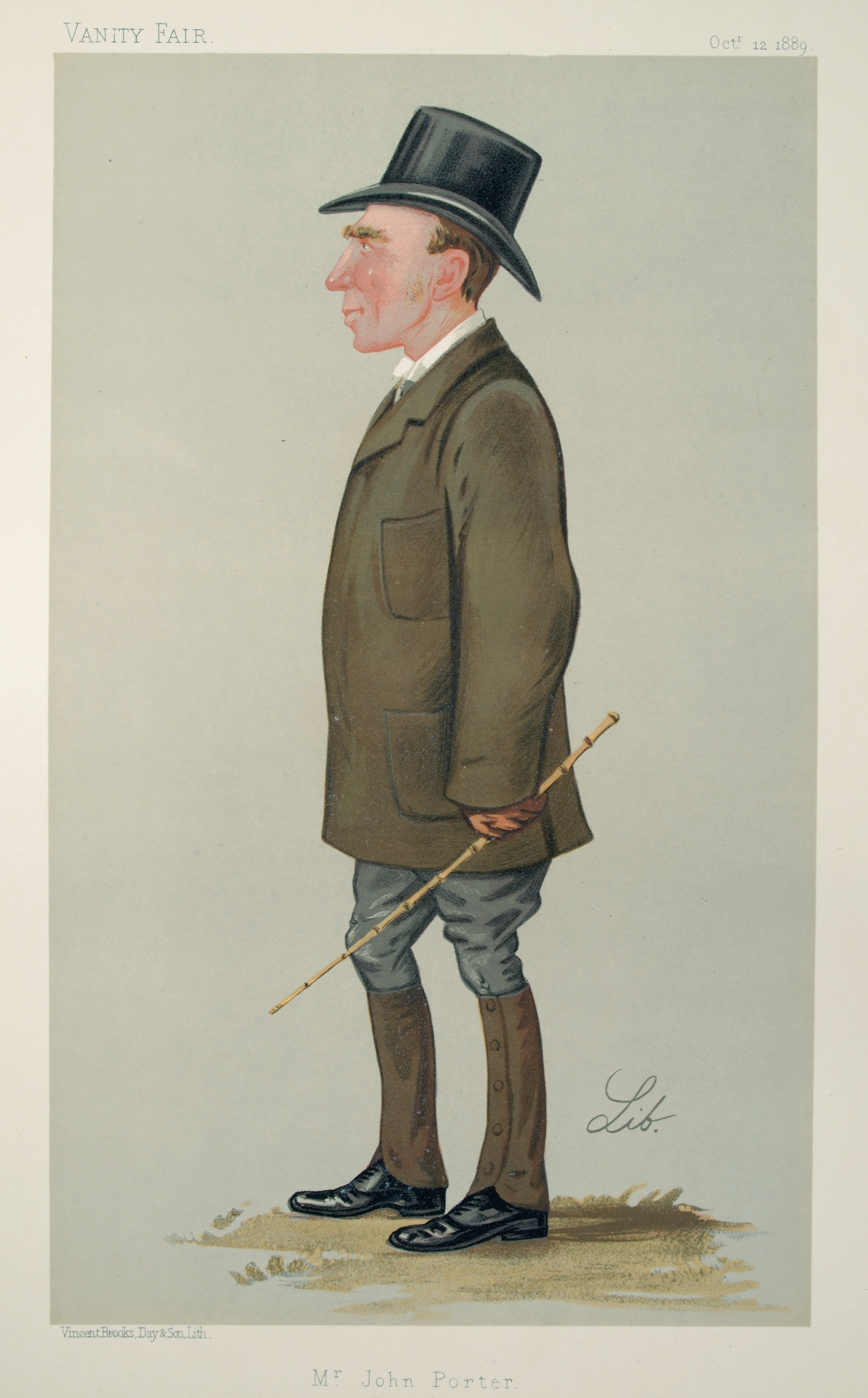 Caricature of John Porter (1838-1922), "Mr. John Porter" Lithograph Oct. 12, 1889 15"x10.5" Vanity Fair portrait, Men of the Day No. 443.